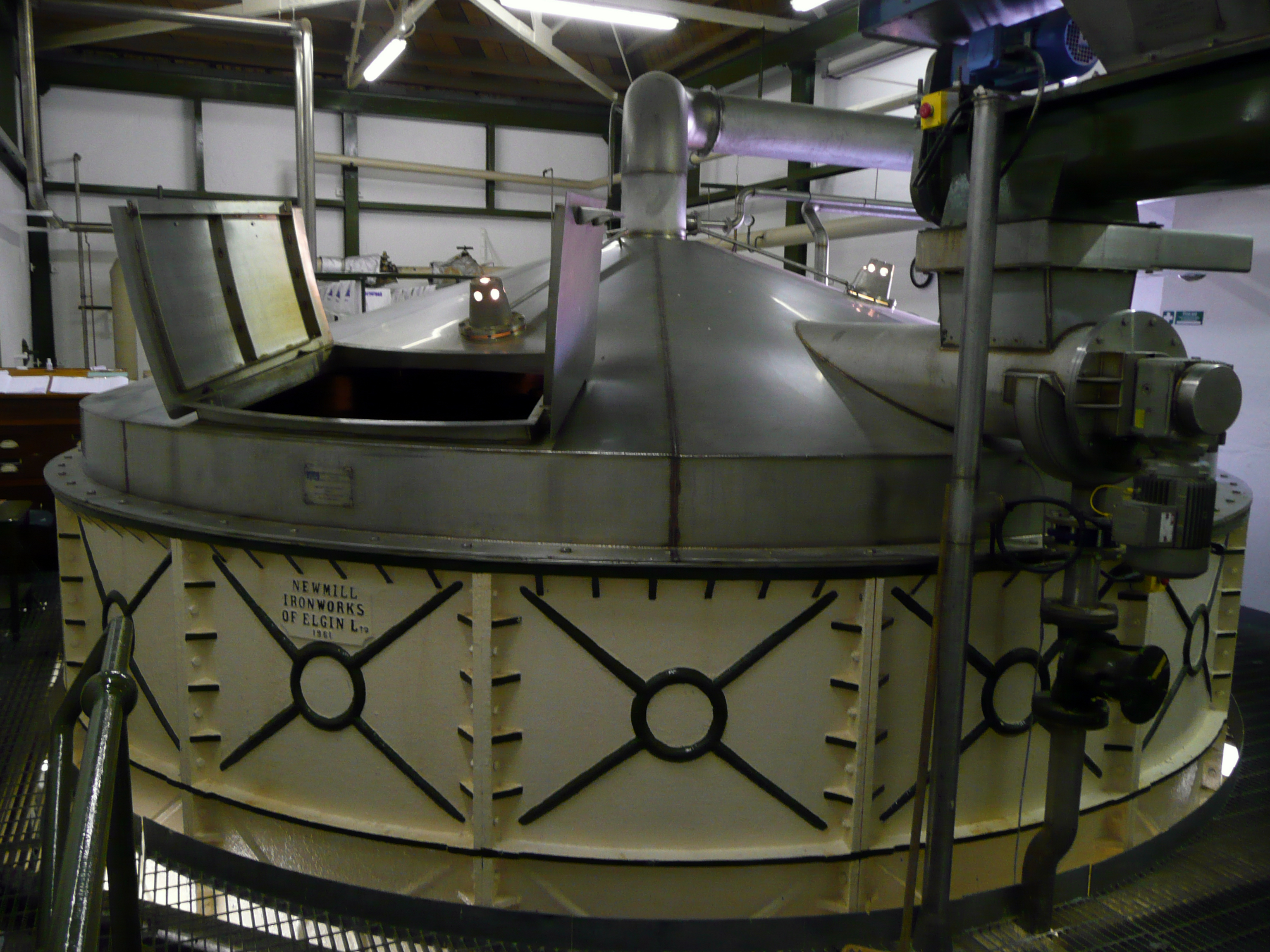 Ardbeg Distillery mash tun